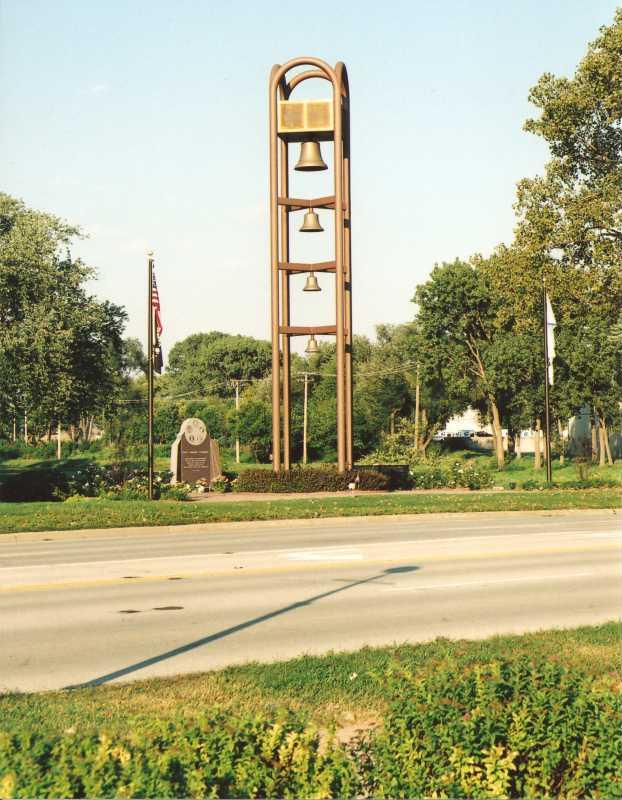 carillon tower in downtown rolling meadows, illinois